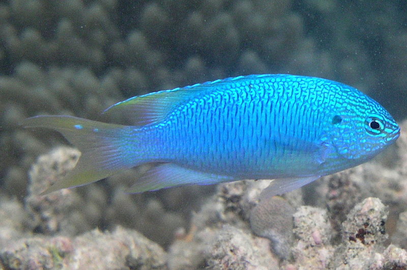 A Peacock Damsel, Pomacentrus pavo, at Lizard Island, Great Barrier Reef, Queensland.